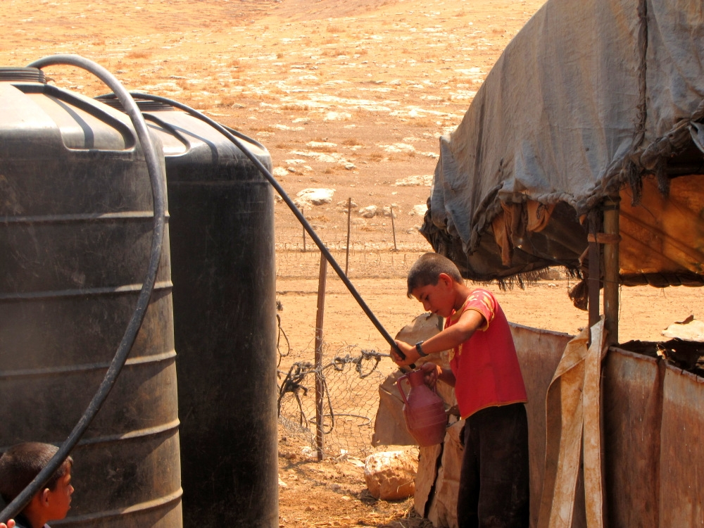 Description from B'Tselem source: "Severe problems with water supply in West Bank and Gaza, February 2014." Photo caption from source: "Khirbet Humsah, the Jordan Valley, not hooked up to water grid; villagers purchase water from water-trucks. Average Palestinian water consumption in this area is only about 20 liters/per person/per day – one fifth of the minimum amount recommended by the World Health Organization."